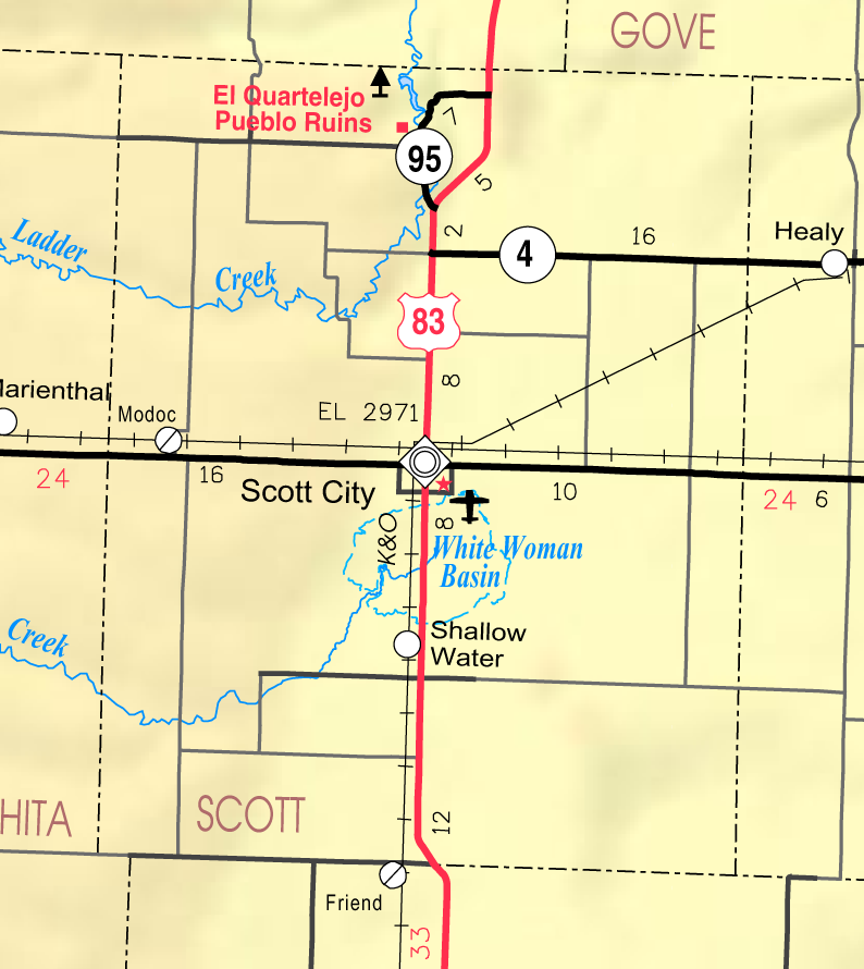 This map of Scott County, Kansas, USA, is copied at a resolution of 300 pixels/inch from the original PDF file.